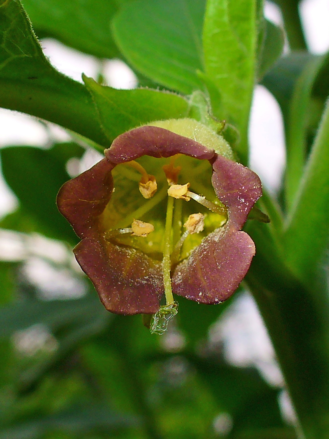 Atropa belladonna, Solanaceae, Deadly Nightshade, flower; Botanical Garden KIT, Karlsruhe, Germany. The fresh plants are used in homeopathy as remedy: Belladonna (Bell.)